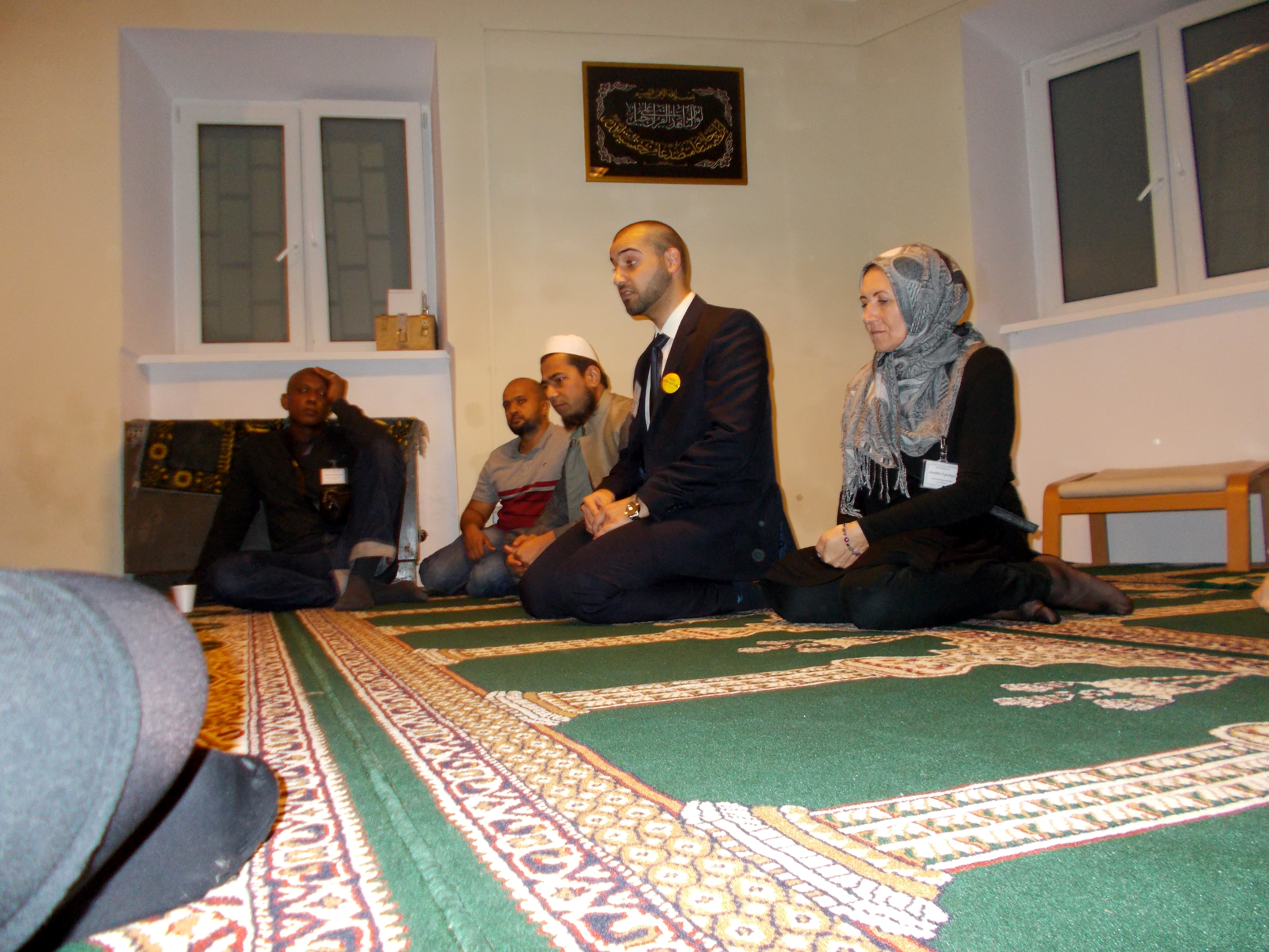 Meeting at the Islamic Center Kraków during the Night of the Temples 2017